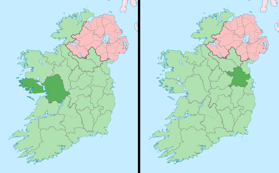 County Galway and County Meath shown within Ireland side by side on different maps.